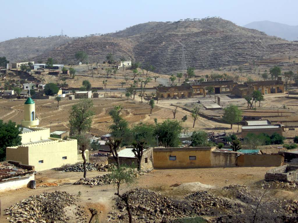 The small town of Embatchalla between Ghinda and Nefasit, Eritrea.